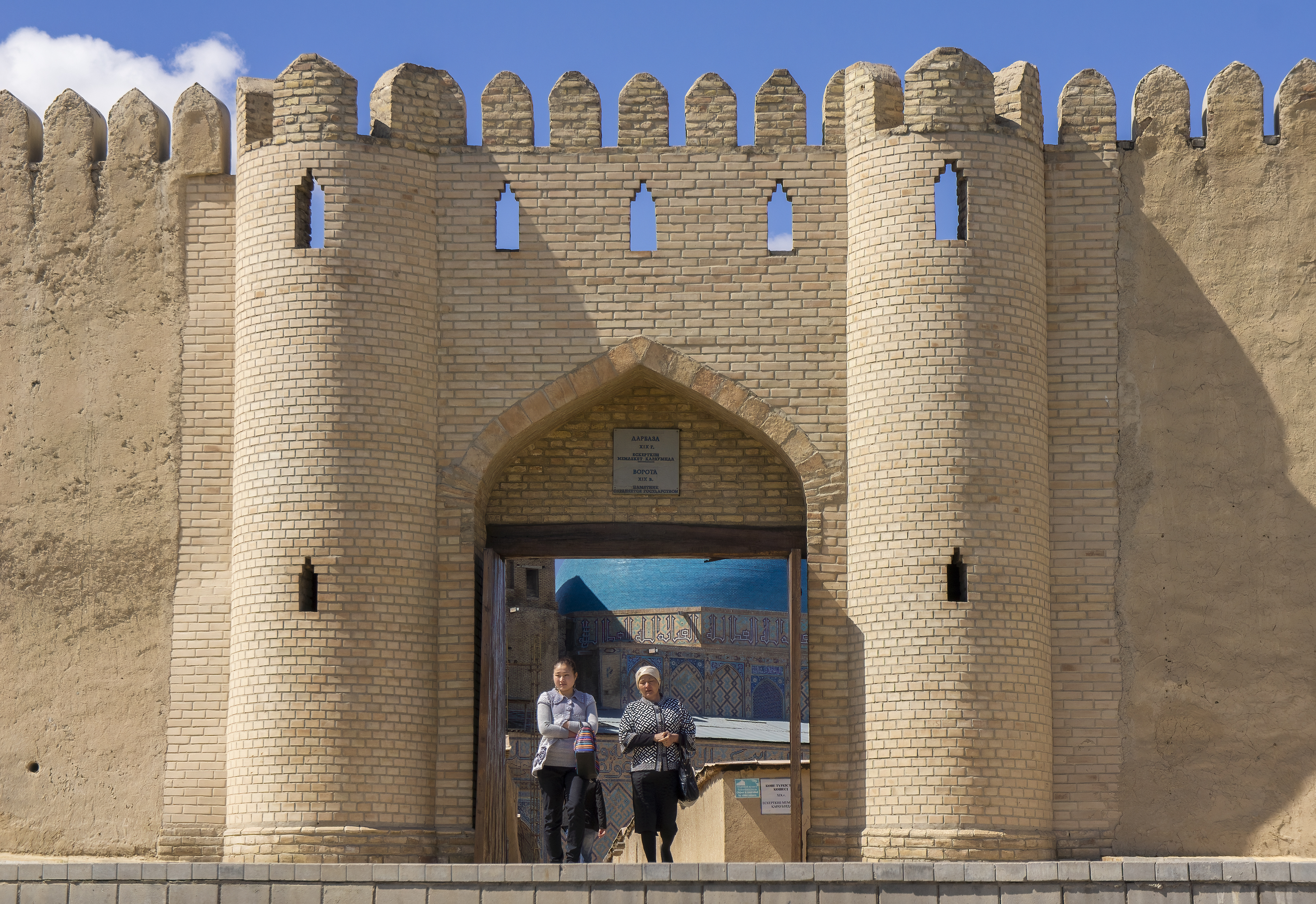 Walls of mausoleum to Koja Ahmad Yassaui, Turkistan, Kazakhstan.